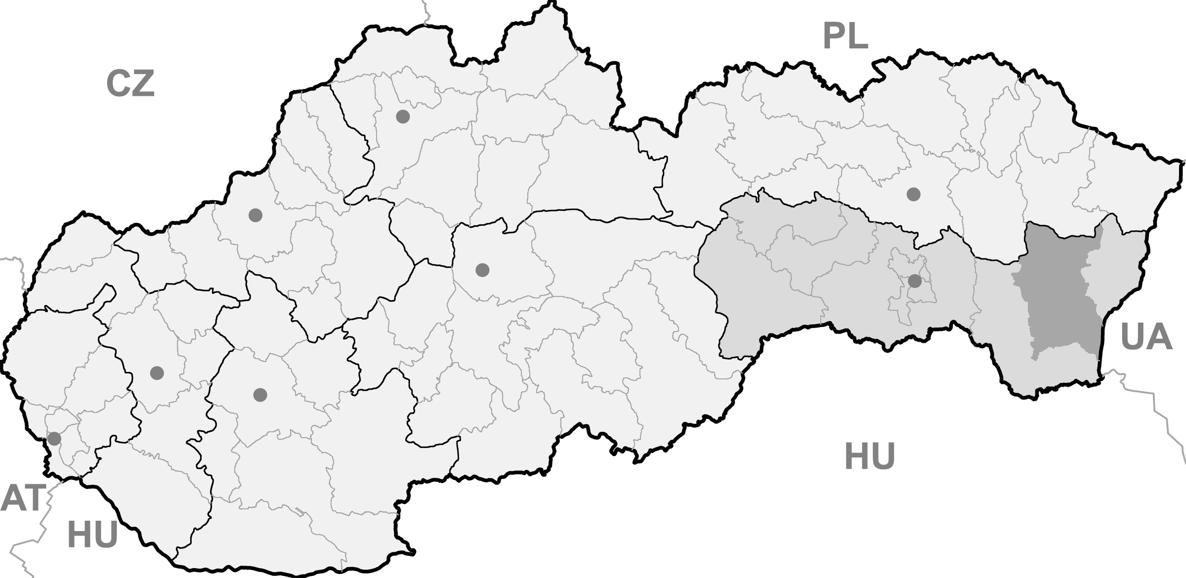 Map of Slovakia, Michalovce district and Kosice region highlighted